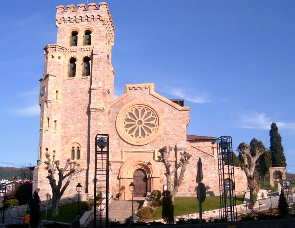 Parroquia de San Esteban de Echévarri, Vizcaya, España.